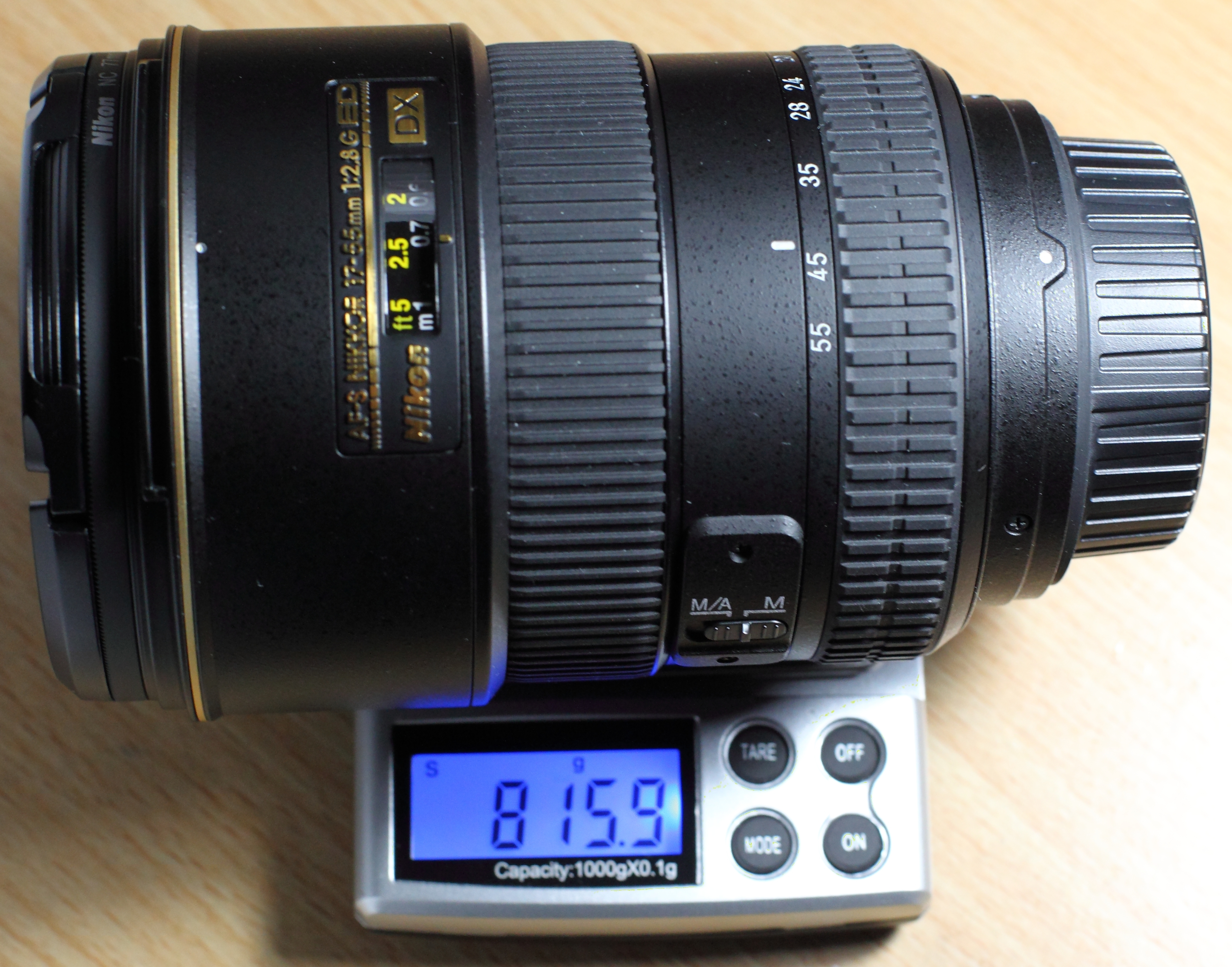 Nikon A F-S 17-55mm f/2.8 G IF-ED DX is a professional zoom lens for the Nikon DX body, Announce in 2004